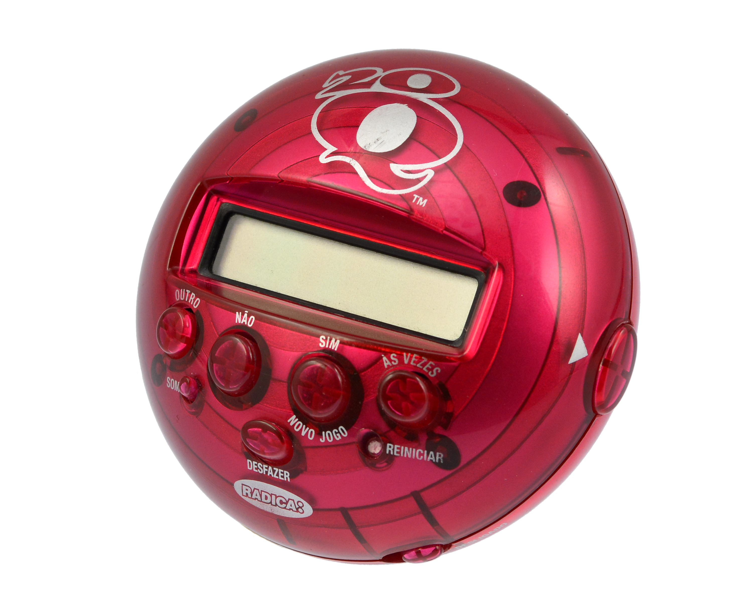 The 20Q handheld electronic LCD game by Radica, red in color. This is one of the many versions made, being this one a normal configuration.